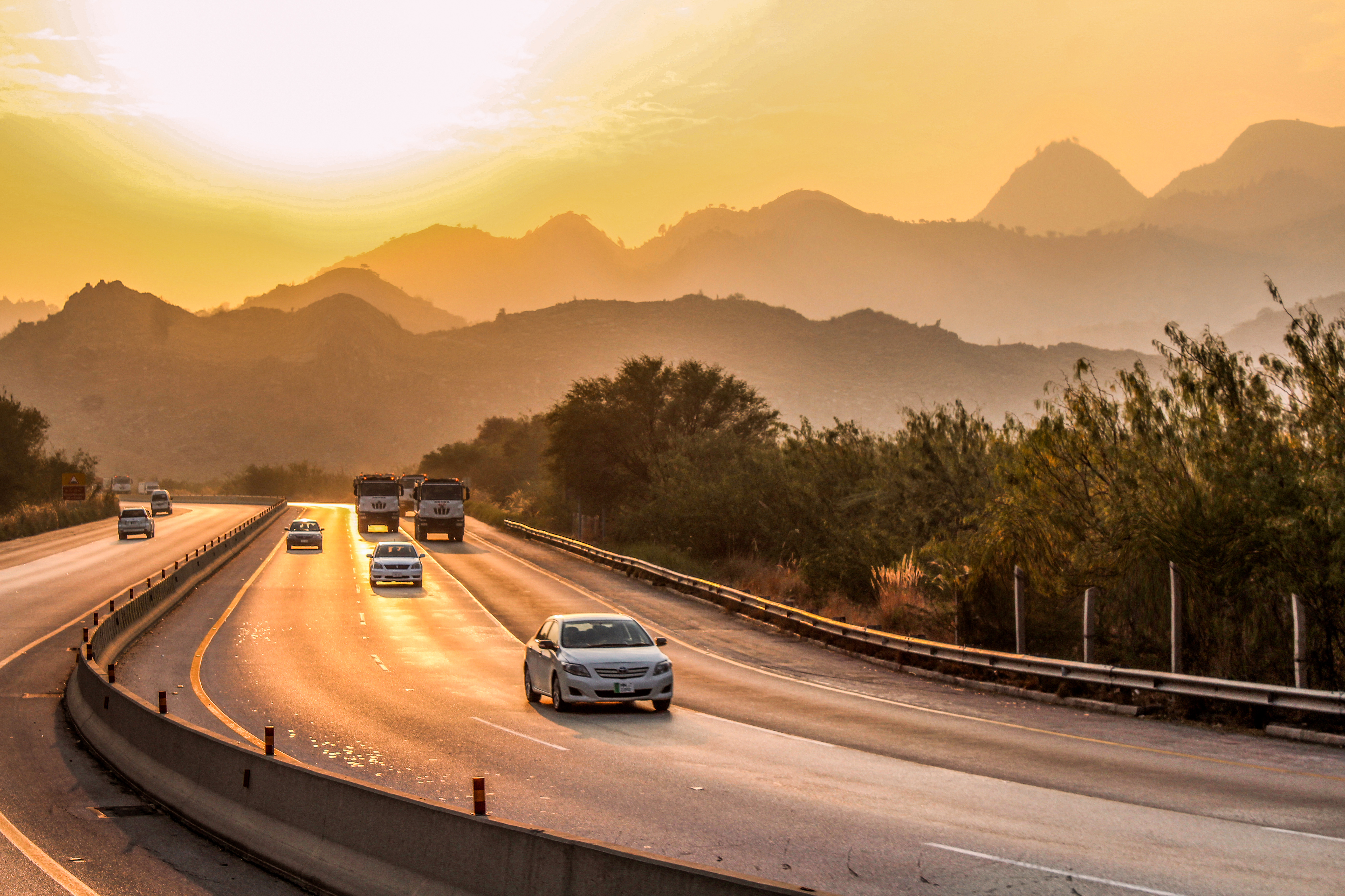 Alluring veiw of Motorway M2(Lahore to islamabad).